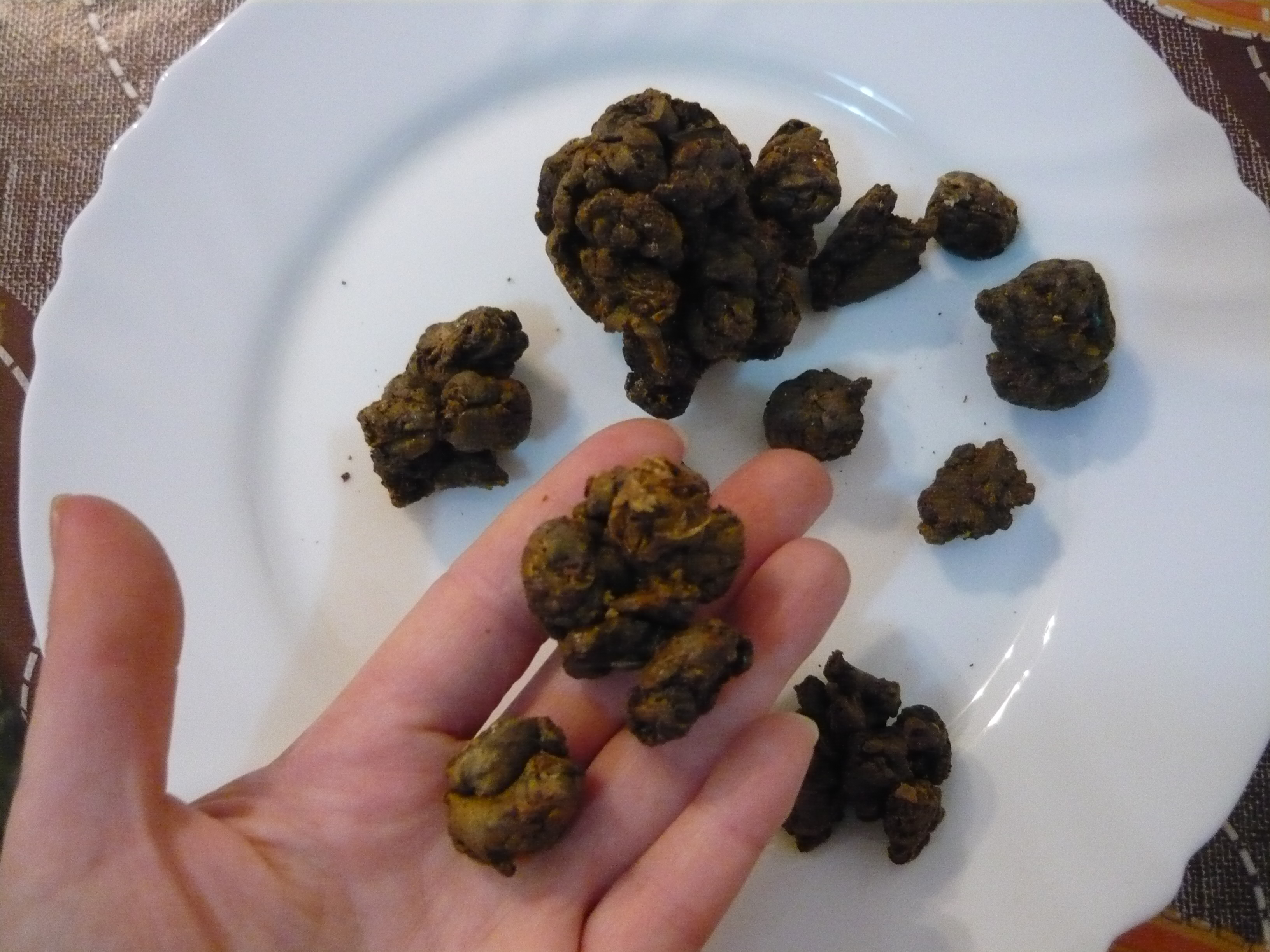 Propolis